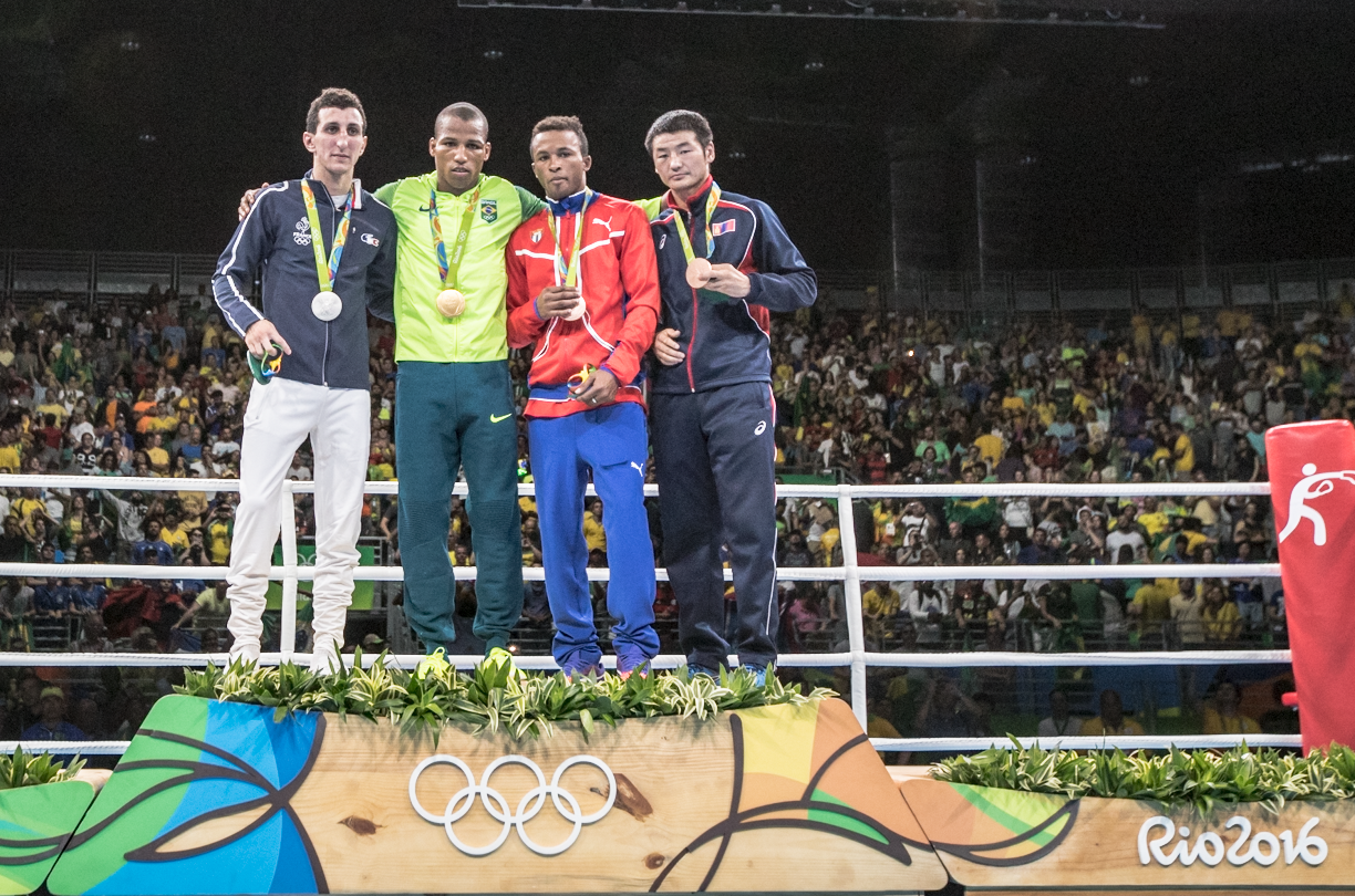 Boxing at the 2016 Summer Olympics. Medal Ceremony. Boxing 60 kg.